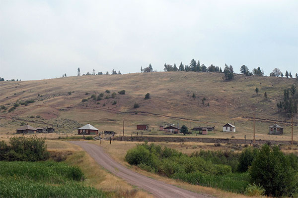 Remaining buildings at the ghost town of Sixteen. View to south